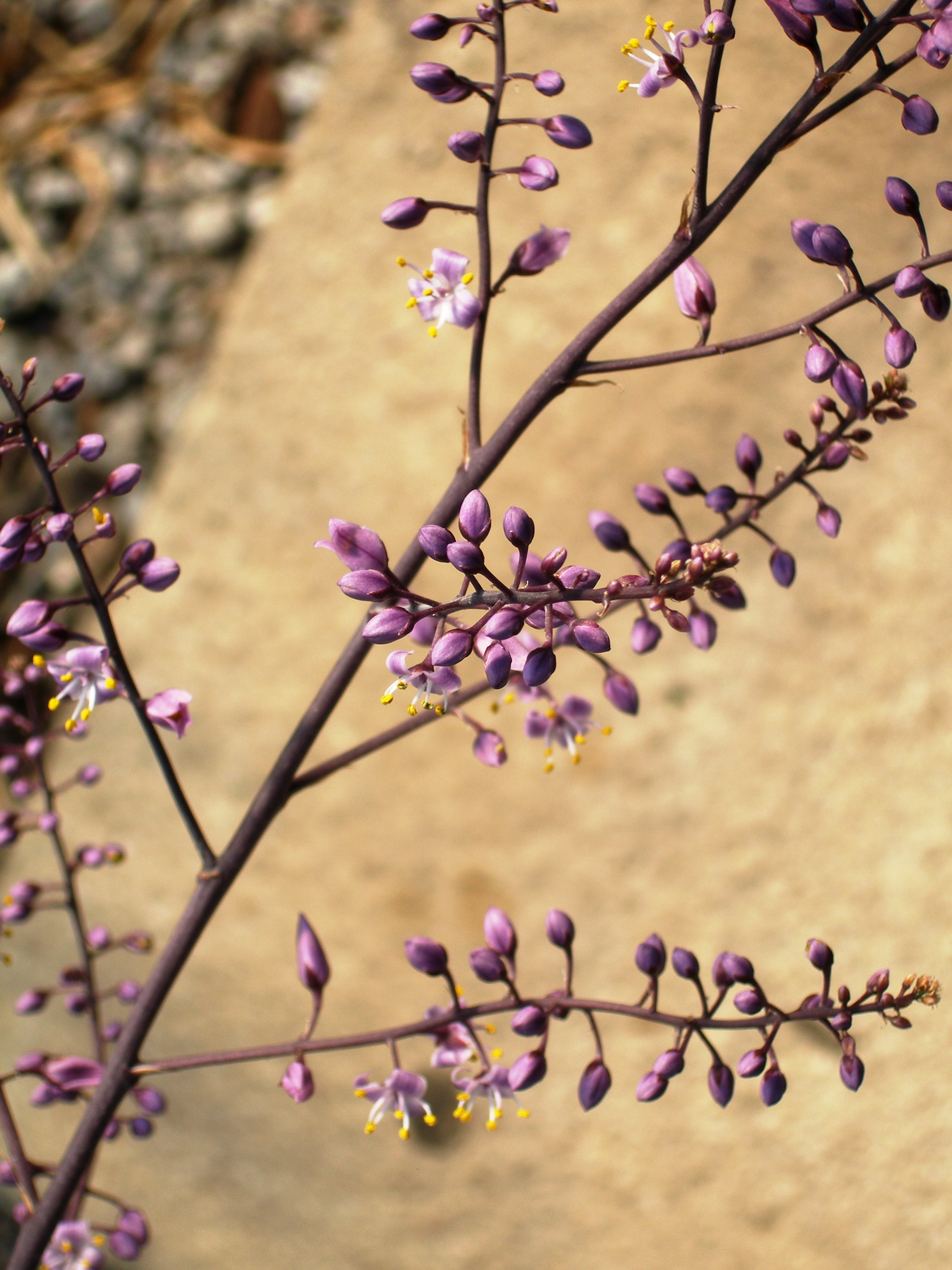 Specimen in cultivation at the Royal Botanic Gardens, Kew, United Kingdom.